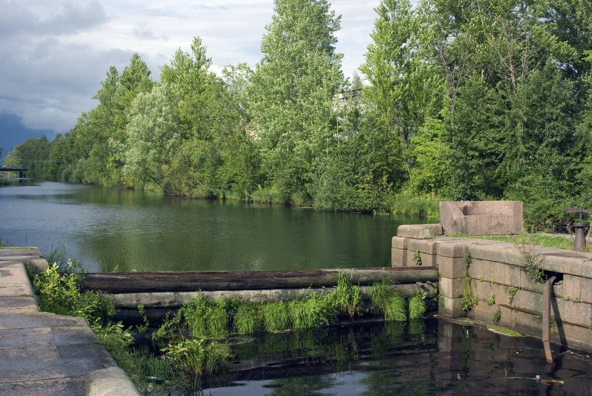 The wooden gates of old ladoga chanel lock in New Ladoga town.